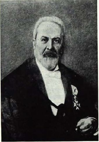 Hector Louis François Leboucq